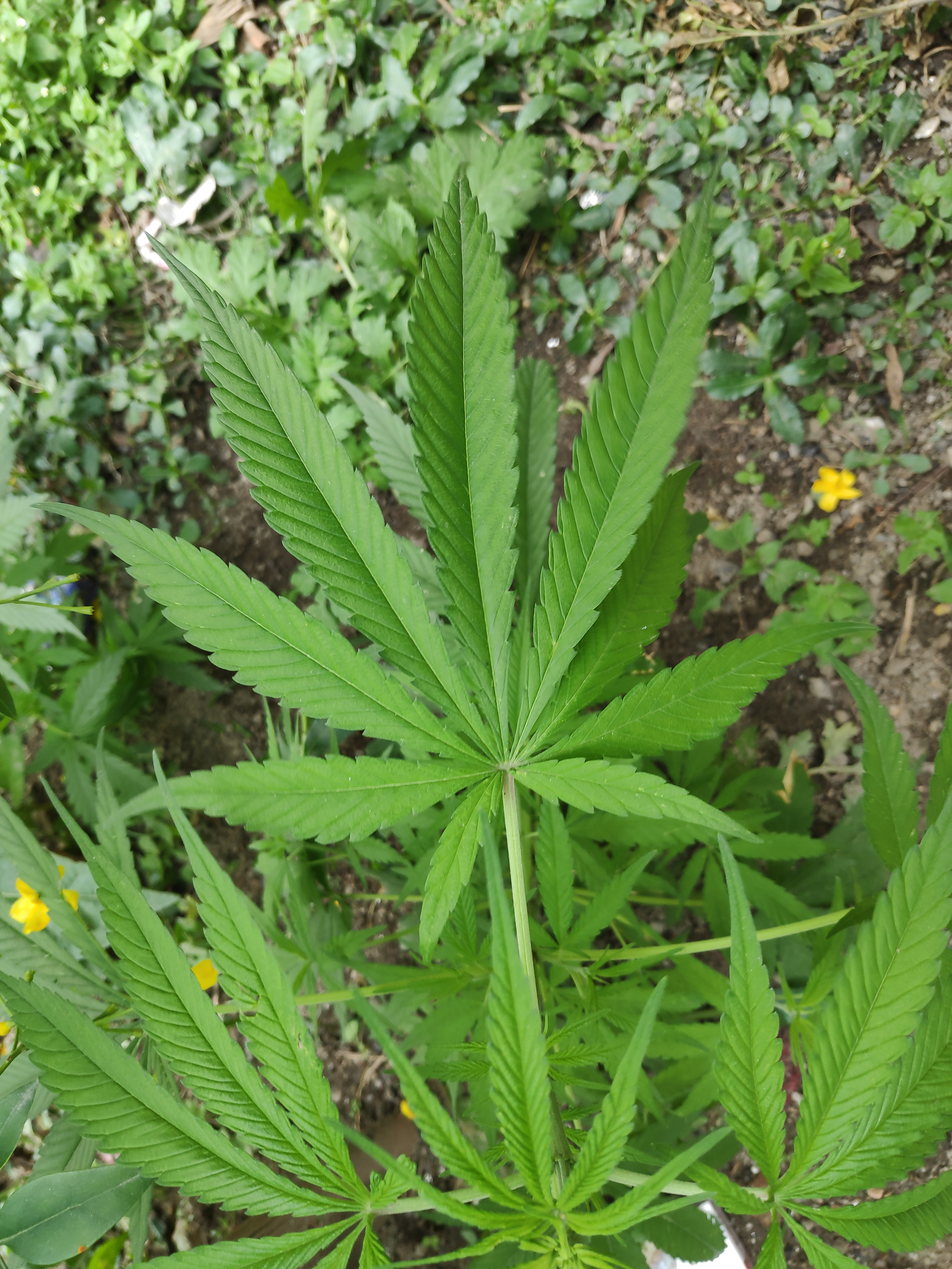 Cannabis Sativa.